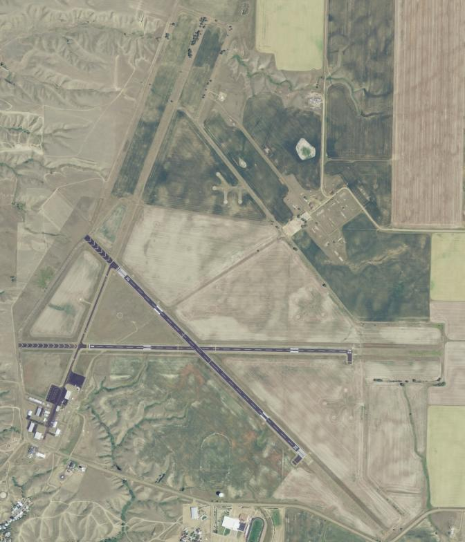 USGS digital orthophoto of Glasgow Airport in Montana